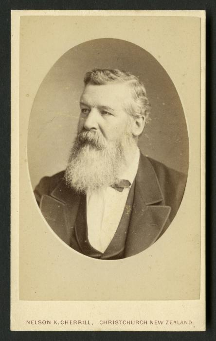 Portrait of Julius von Haast (1860s-1870s)